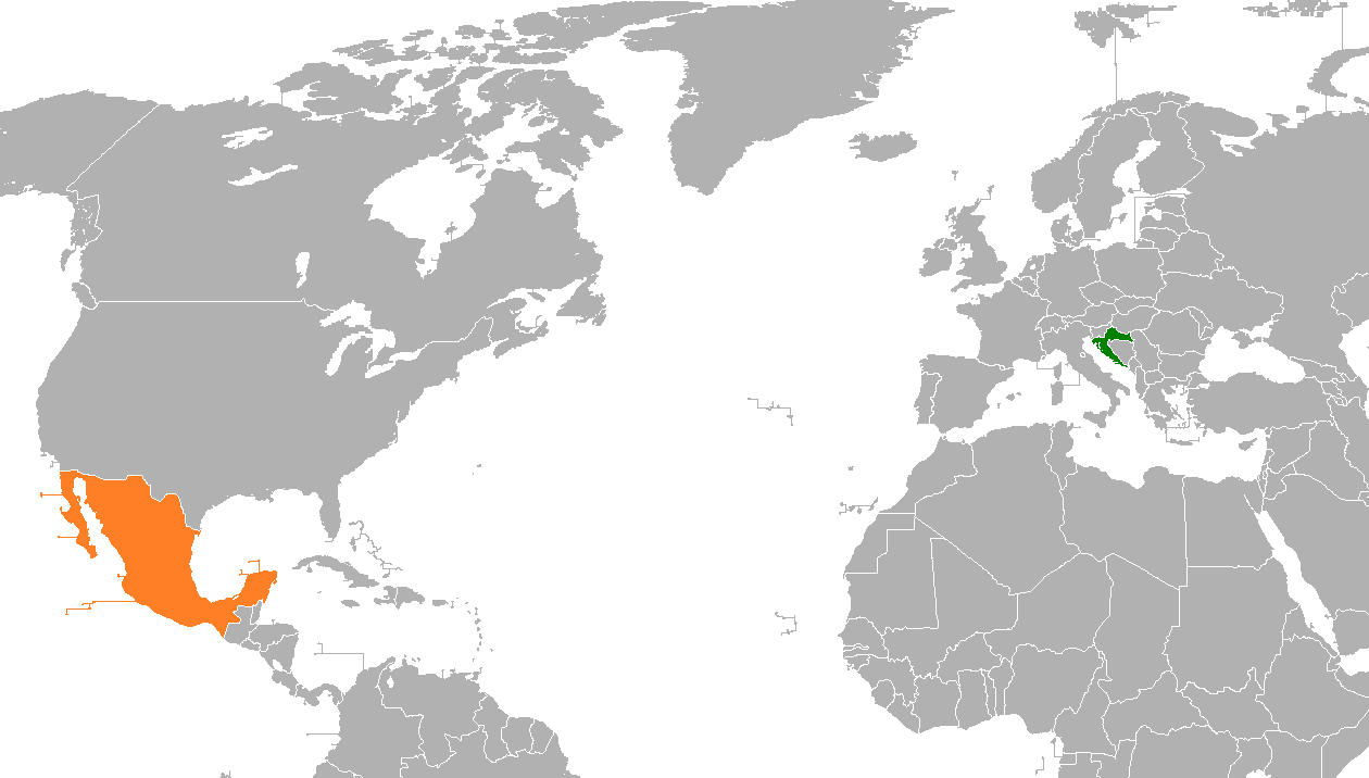 Map showing locations of both Croatia and Mexico